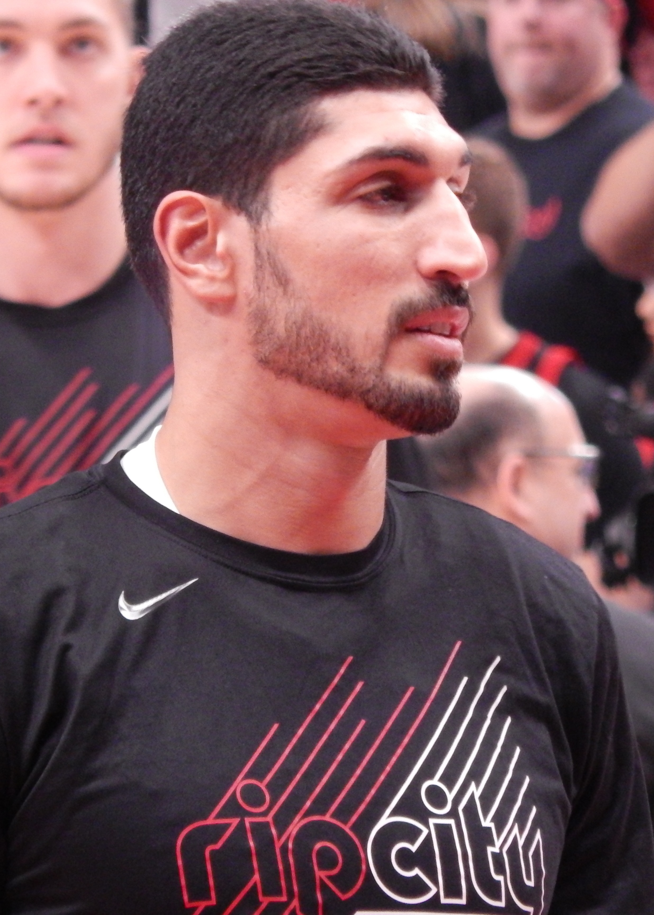 Enes Kanter #00 of the Portland Trail Blazers warms up before the game against the Golden State Warriors on May 18, 2019 at Moda Center in Portland, Oregon.